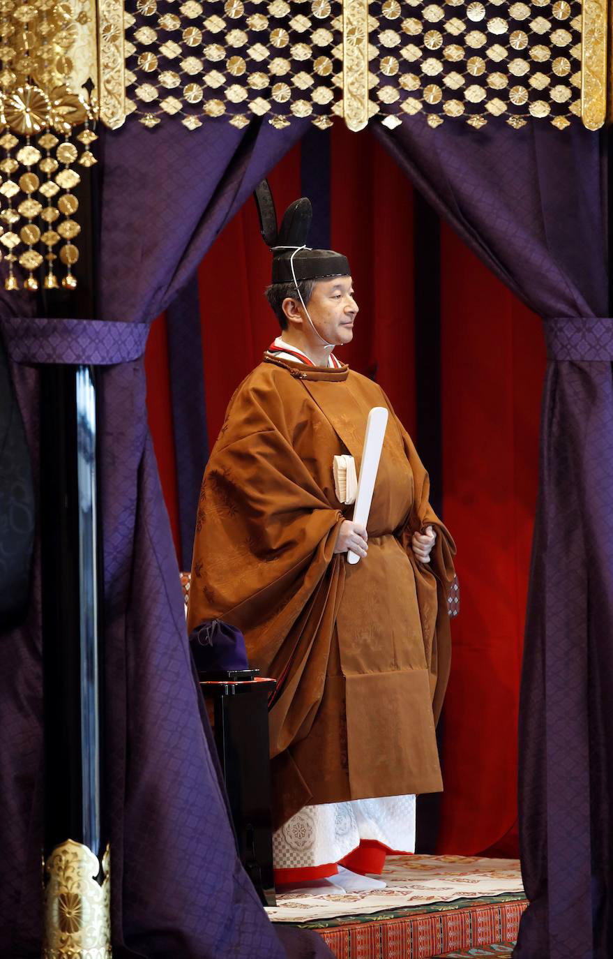 The 126th Emperor, Naruhito, wore Korozen no goho.